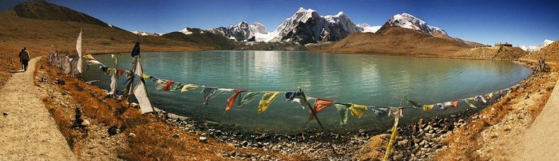 Gurudongmar Lake Panorama created with Nikon D70s, Sigma 17-70mm F2.8-4.5 standard zoom & Arcsoft panorama maker(supplied with Nikon coolpix S1)